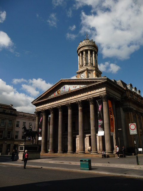 Gallery of Modern Art, Queen Street Once a mansion then a library and now an art gallery